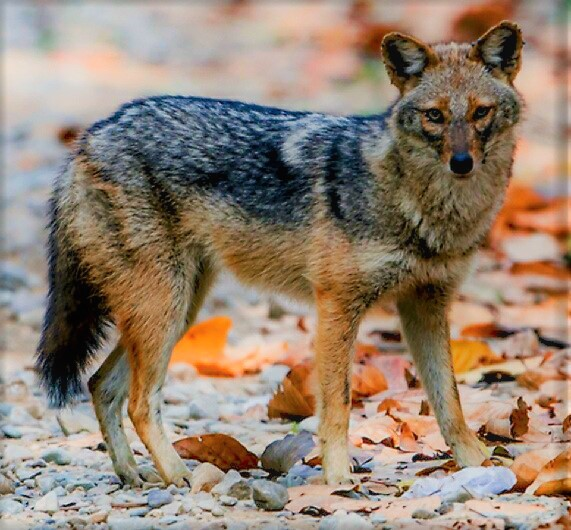 Golden jackal in Corbett National Park